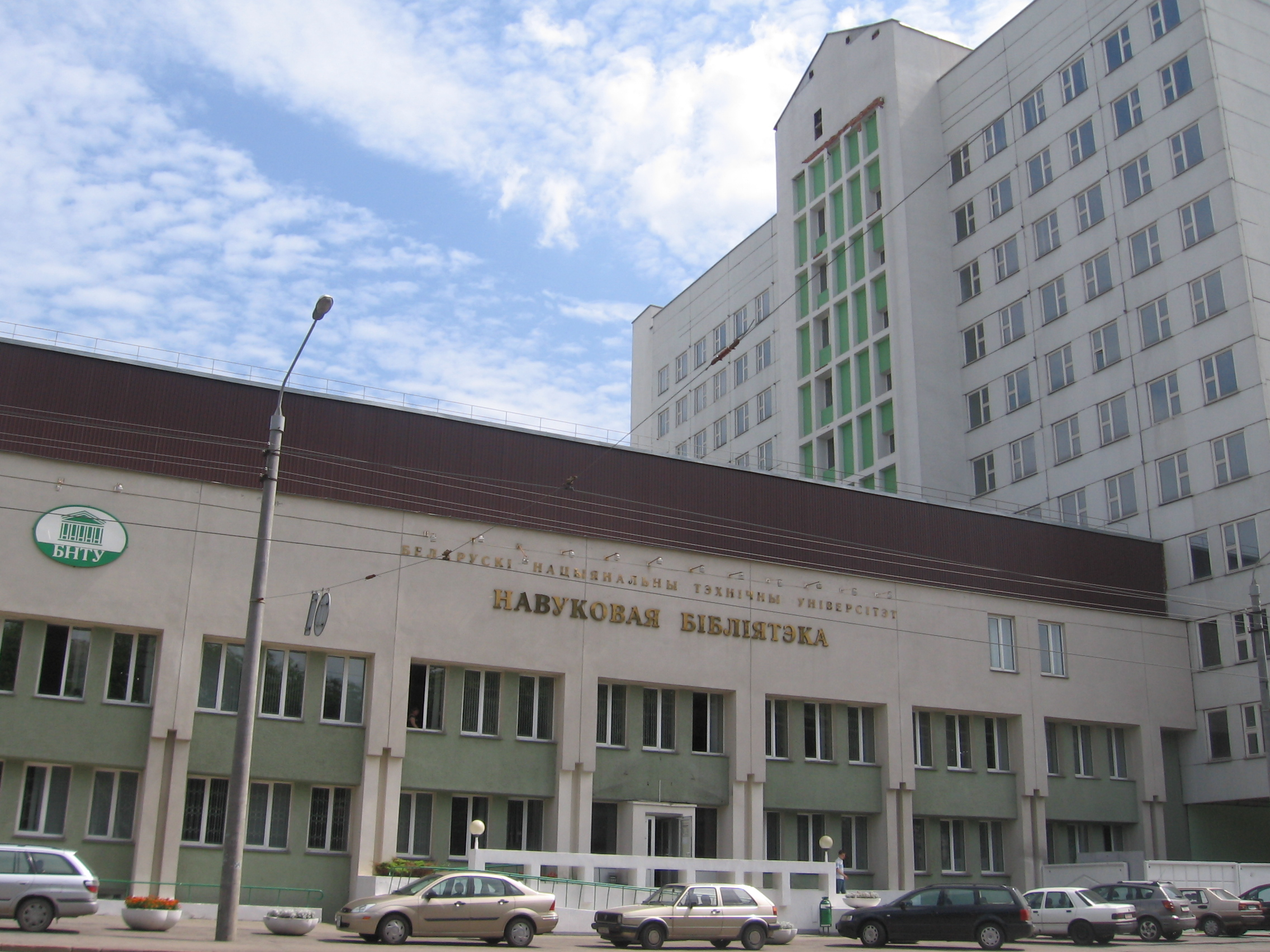 h.16